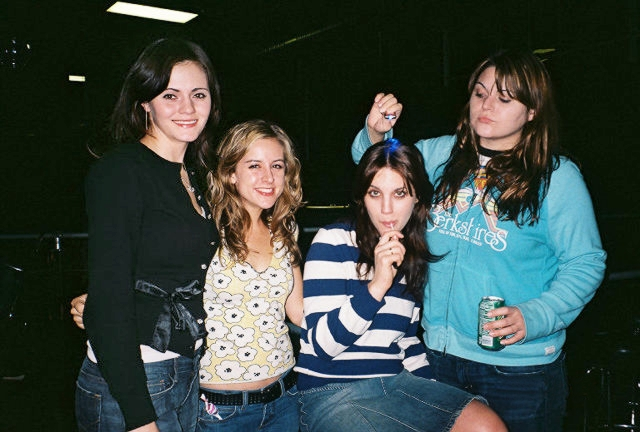 The Donnas (l.t.r. Brett Anderson, Torry Castellano, Allison Robertson, and Maya Ford in Cleveland, Ohio